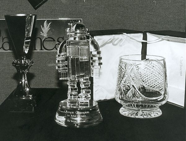 Crystal Glass Robot Olypic Champion Prize from Caithness Glass